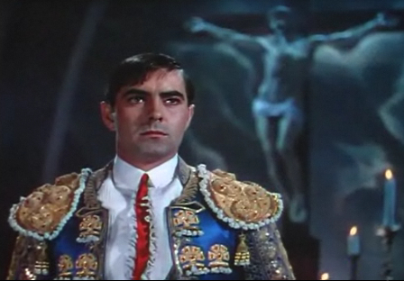 Cropped screenshot of Tyrone Power from the trailer for the film Blood and Sand.